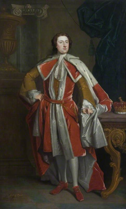 Portrait of Lionel Tollemache, 4th Earl of Dysart (1708-1770)